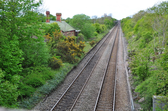 Cardiff to Bridgend line near St Athan The building on the left is all that remains of the old station. There have been calls for the old 'halt' to be re-opened in line with proposals for the re-development of the old RAF station nearby.